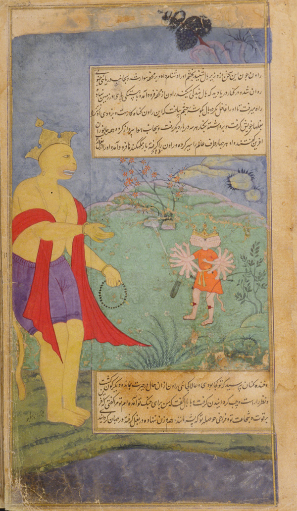 Folio from the Ramayana of Valmiki (The Freer Ramayana), Vol. 2, folio 302; recto: Having flown to the four oceans to perform devotions with the humiliated Ravana at his belt, Vali returns to Kiskindha and mockingly interrogates the raksas; verso: text 1597-1605 Kamal , (Indian, Mughal dynasty Opaque watercolor, ink, and gold on paper H: 27.5 W: 15.2 cm Northern India Gift of Charles Lang Freer F1907.271.302